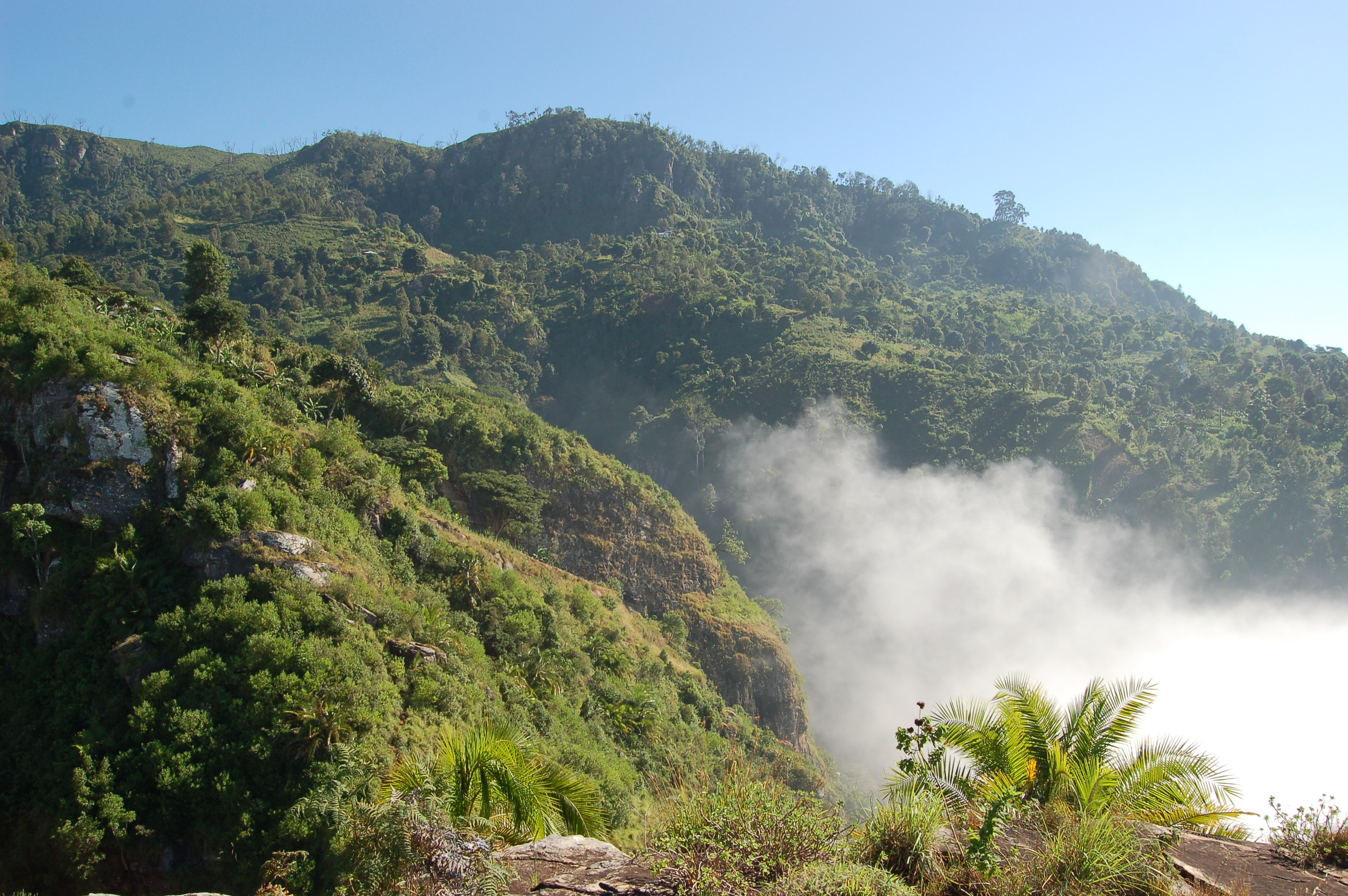 Usambara Mountains, Tanzania